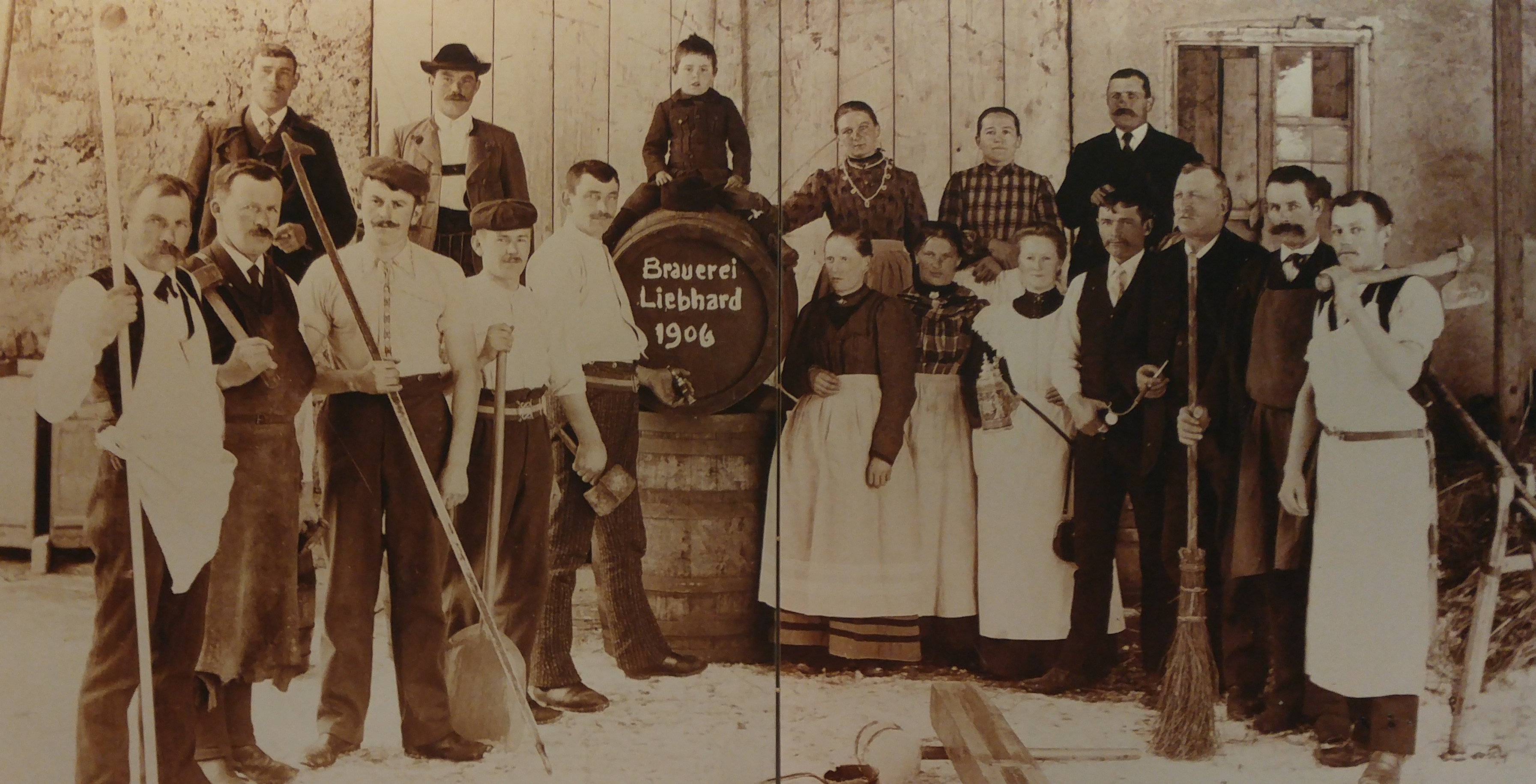 Brewers working at the brewery Liebhard around 1906. Picture taken from a blackboard at a guided tour at the brewery Aying in 2016